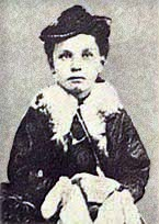 Margaret Persia Bowers (1863?-1874)